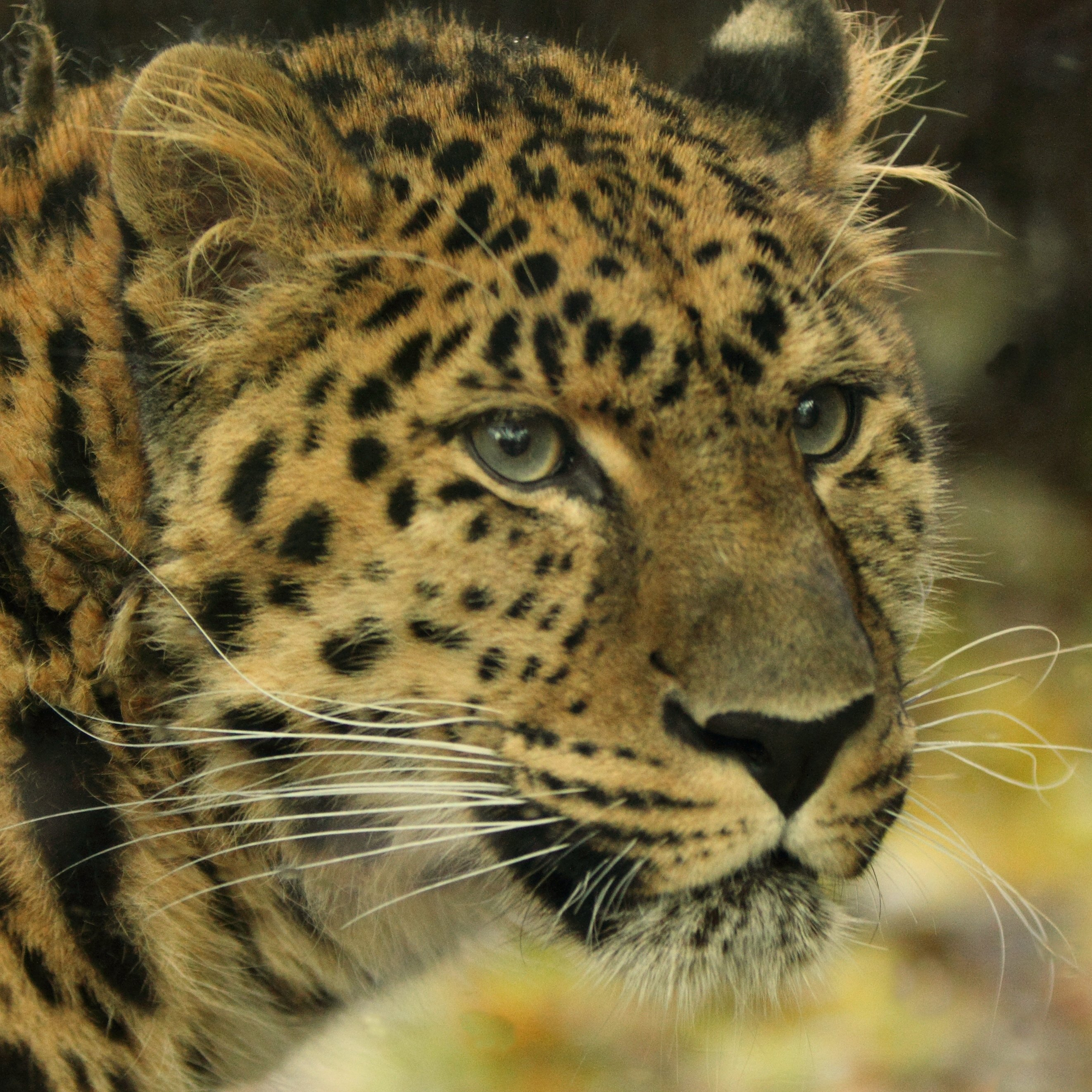 Panthera pardus orientali in Diergaarde Blijdorp